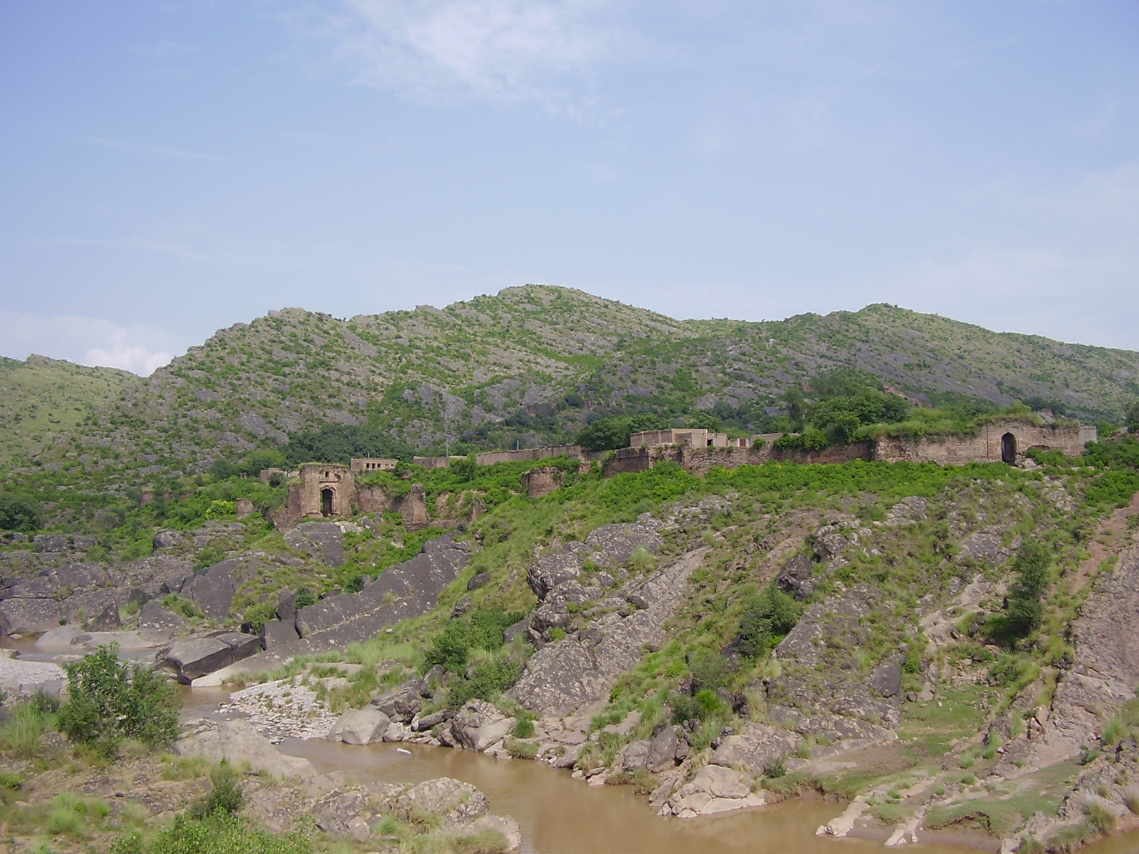 Panoramic view of Pharwala Fort near Islamabad Pakistan beside the Swaan Stream.